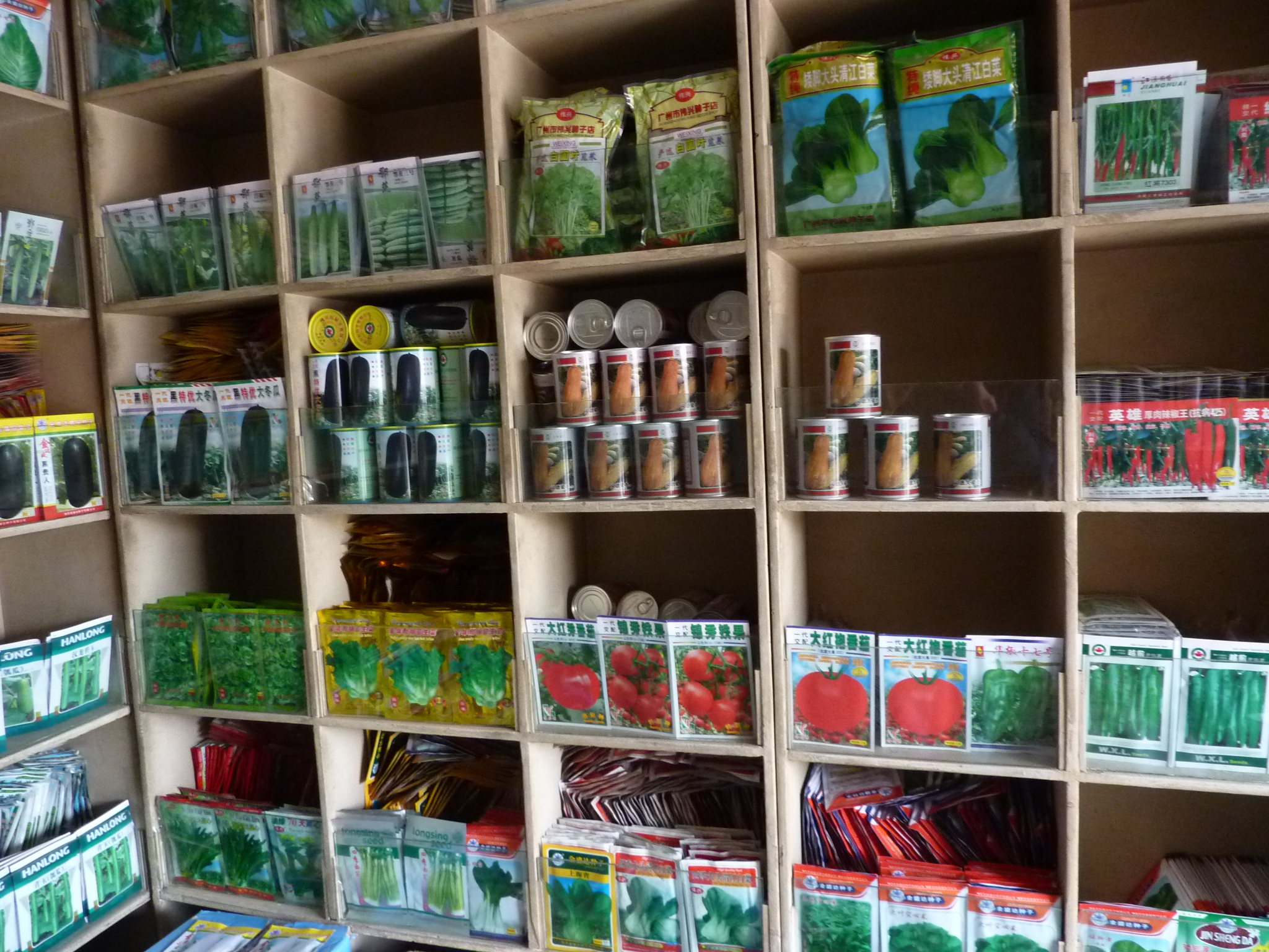 In the seed shop district of Wuhan (a block of Zhongshan Lu north of the Wuchang Railway Station, with dozens of little shops selling all kinds of vegetable seeds.)